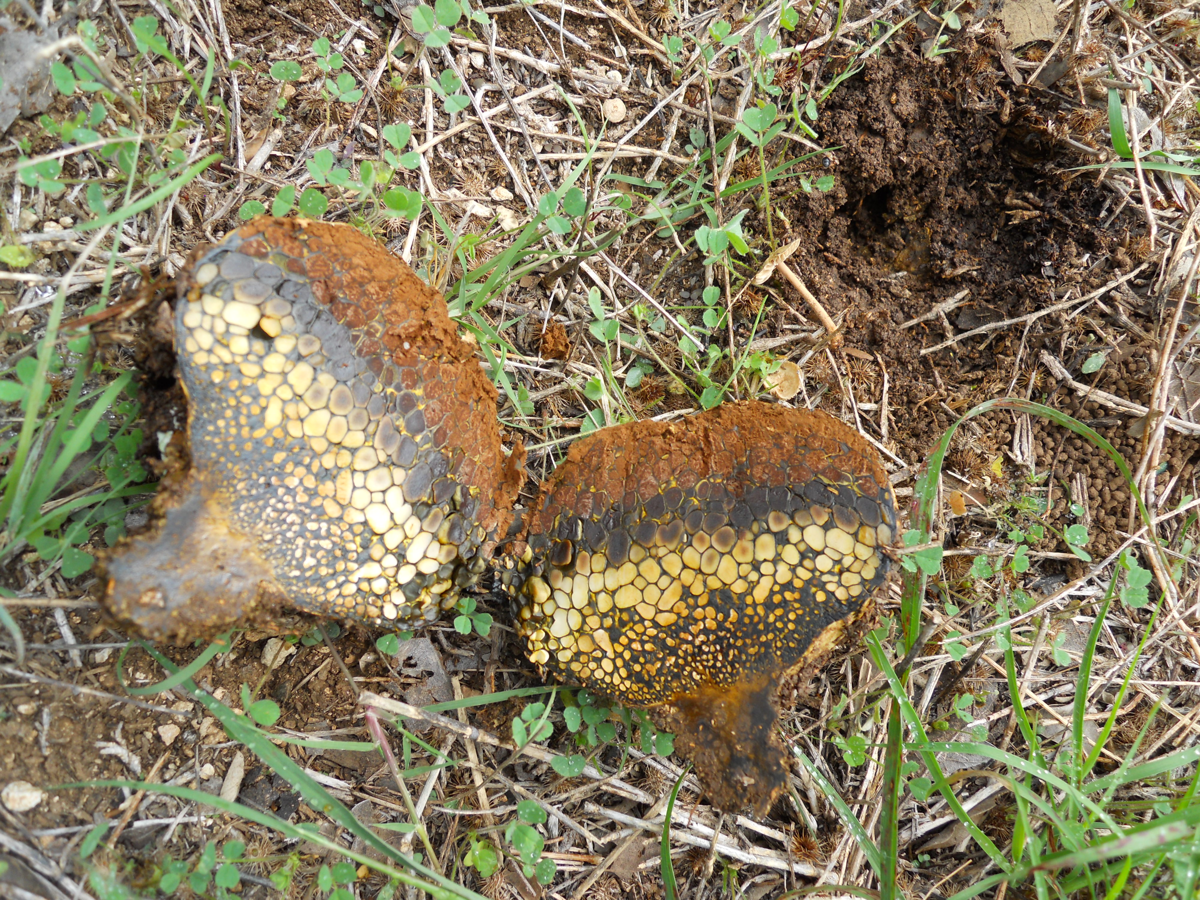 A pisolithus tinctorius, to the best of my understanding; AKA Dye-maker's false puffball. Found nearby a live oak tree, in central Texas, in October.